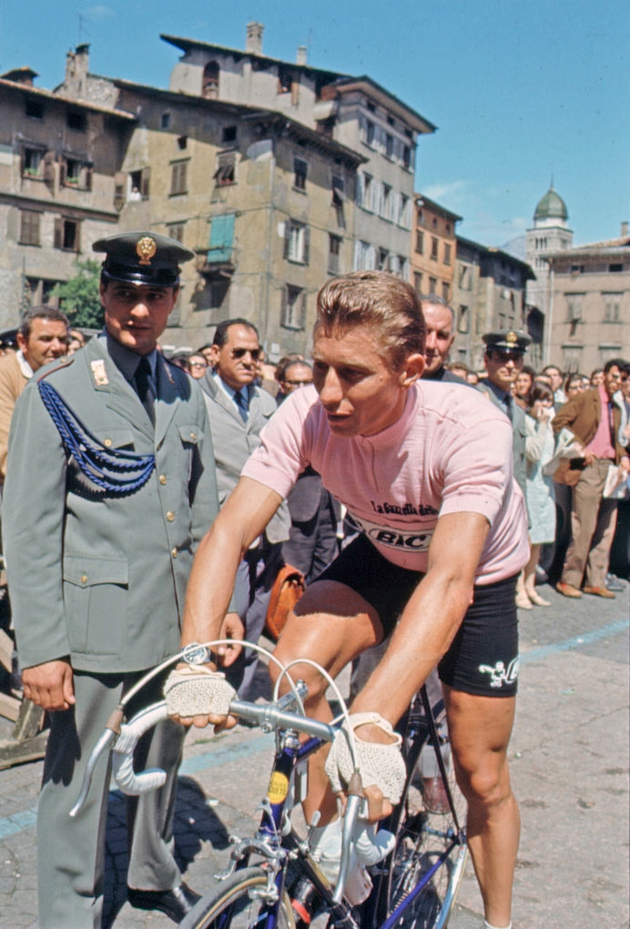 The French racing cyclist Jacques Anquetil arriving at the start of the 21st stage of the Giro d'Italia Trent-Tirano. Trent, 10th June 1967